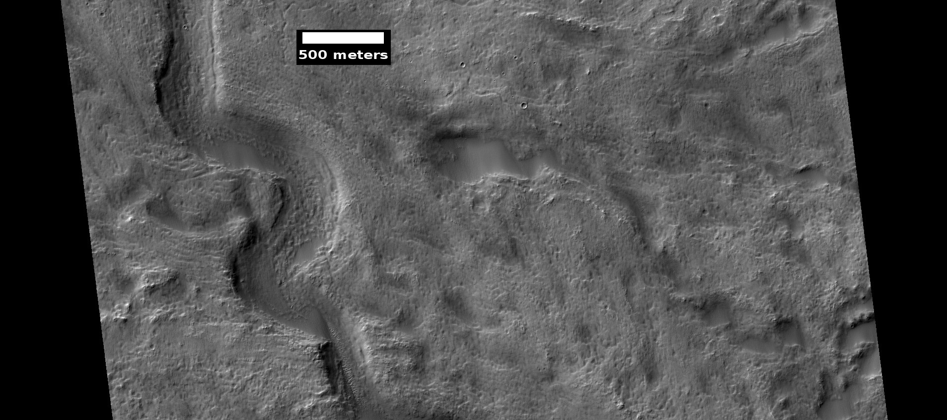 Curved channel in Newton Crater, as seen by hirise under the HiWish program